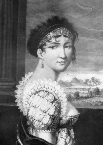 Portrait of Augusta of Bavaria (1788-1851)